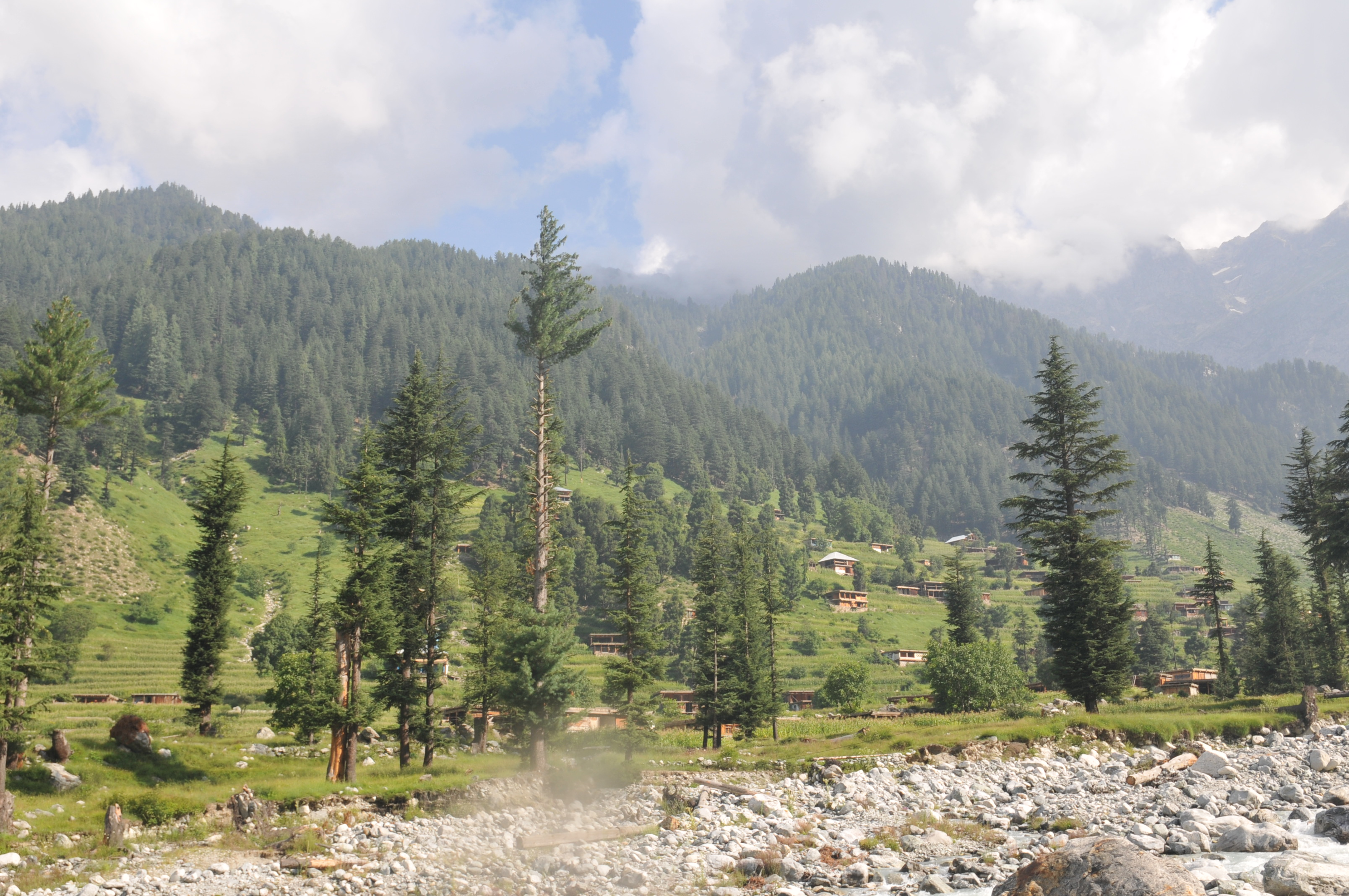 Swat valley paradise 015